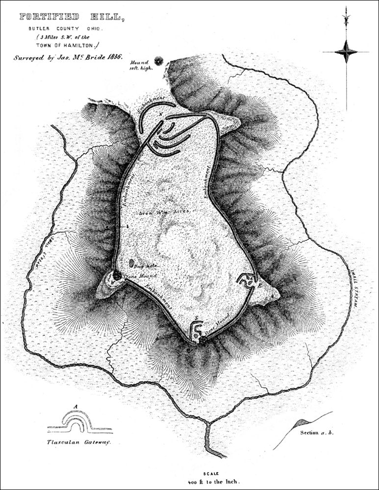 Squier and Davis engraving of the Fortified Hill Works near Hamilton, Ohio